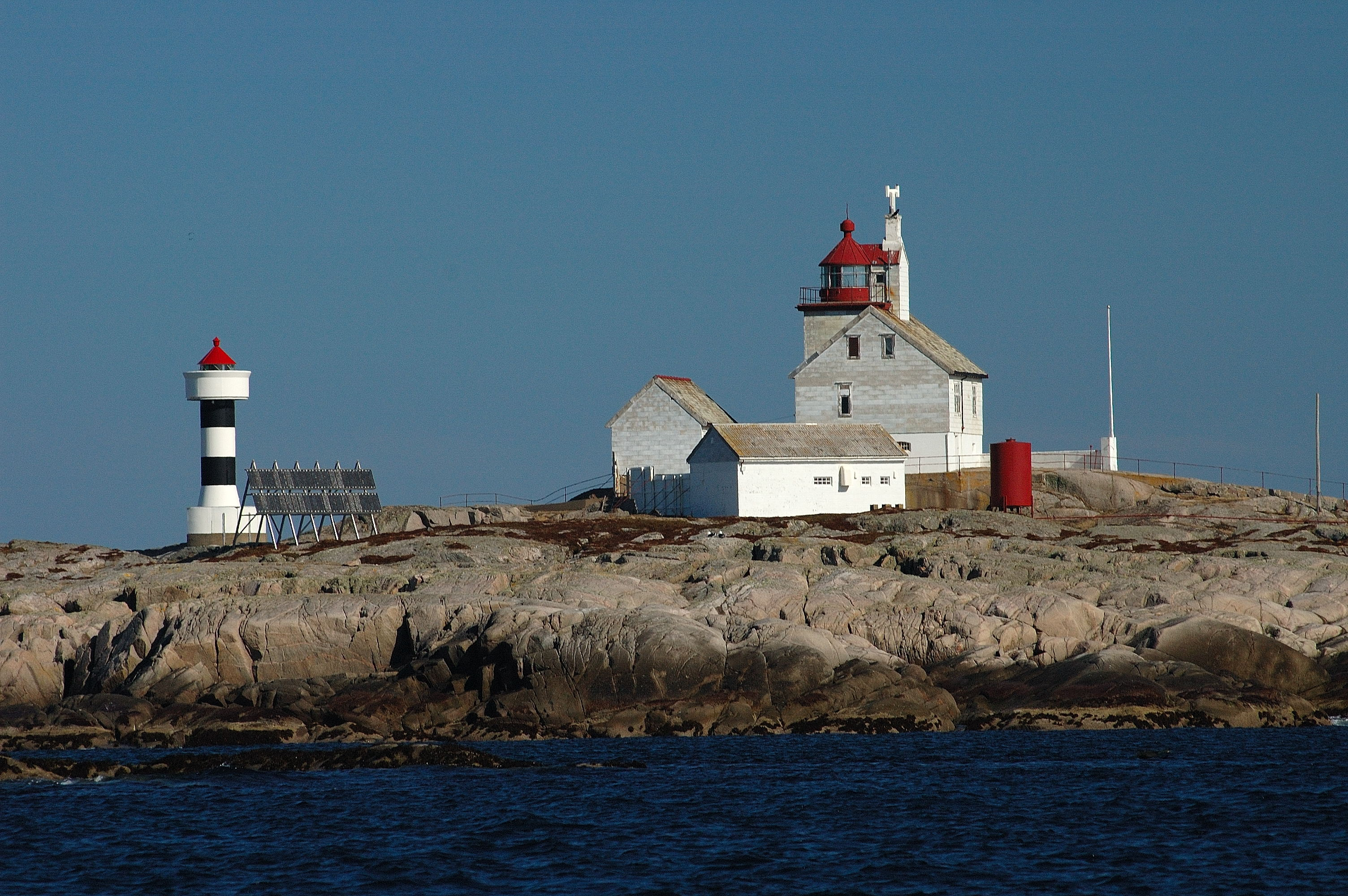 Finnværet lighthouse seen from south.